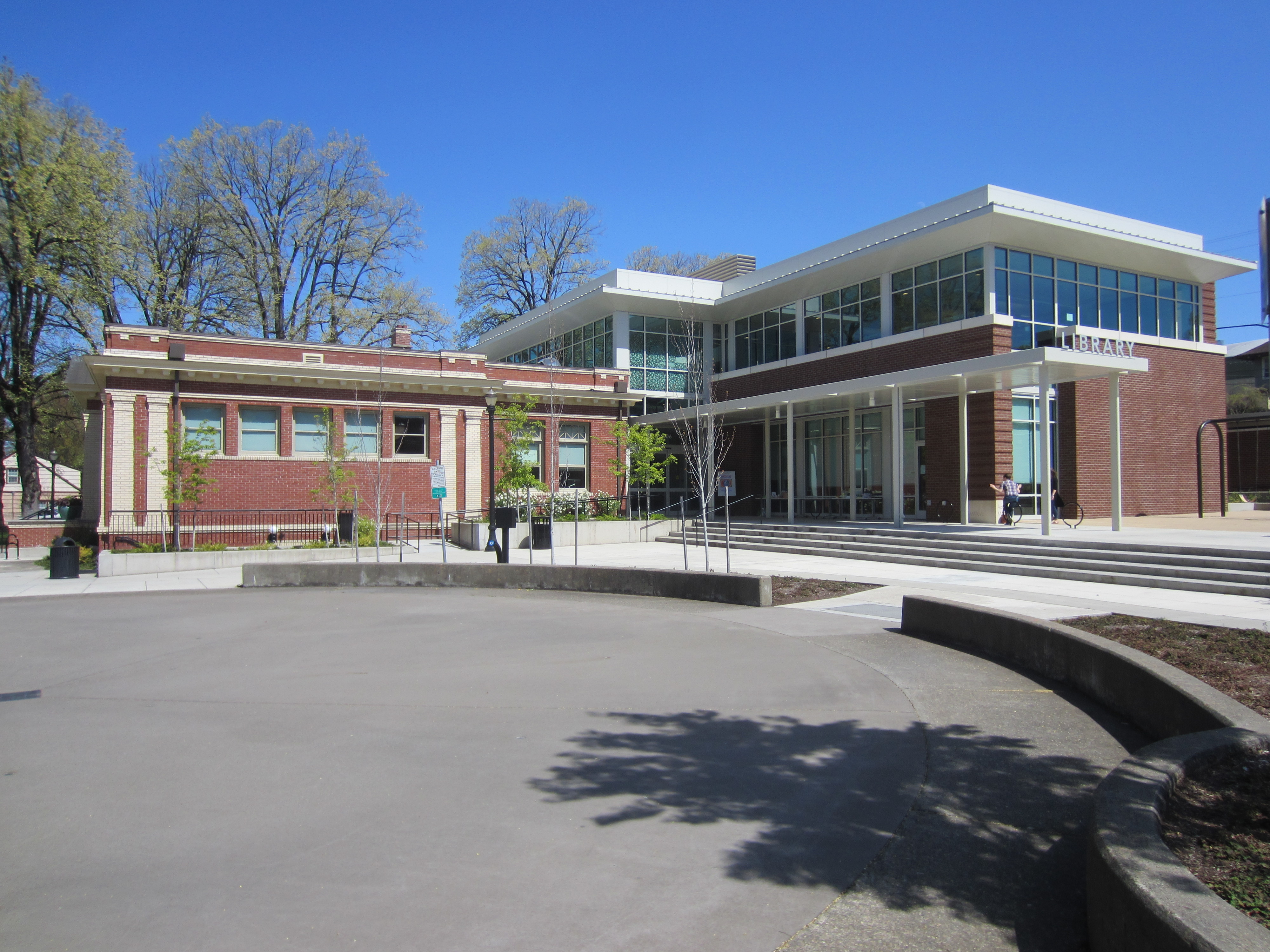 The Oregon City Carnegie Library building (built in 1912–13 and listed on the National Register of Historic Places), at left, and a new wing, at right, built in 2015–16. Oregon City, Oregon (April 2018)